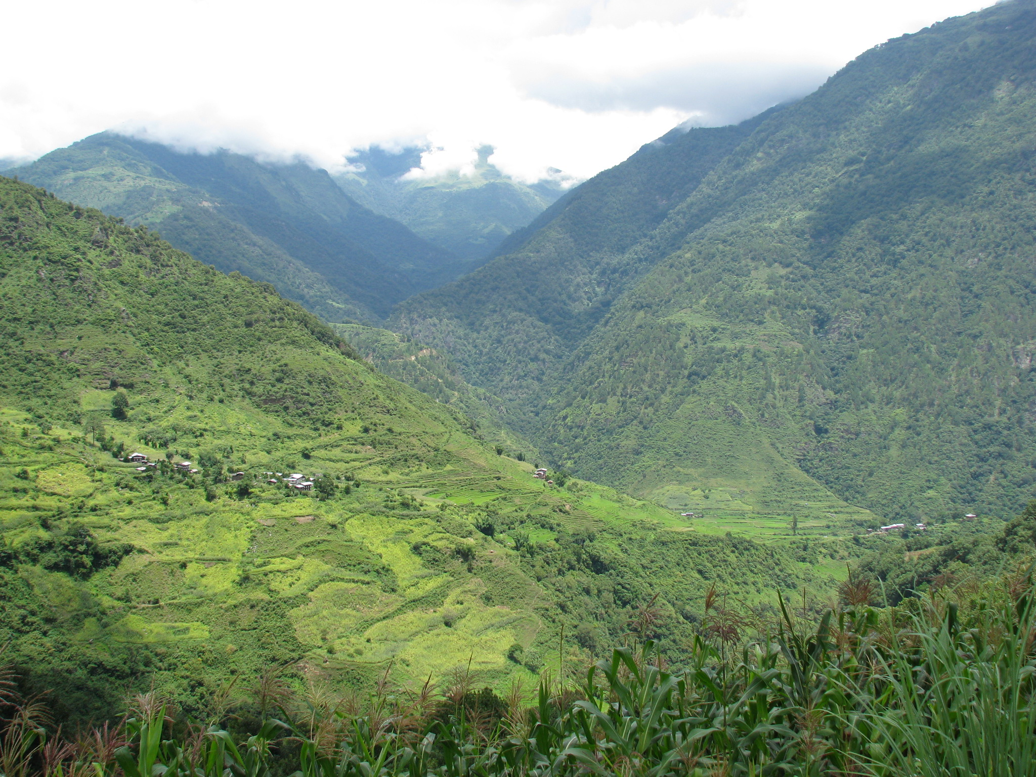 View from Nimshong Village, Lhuentse